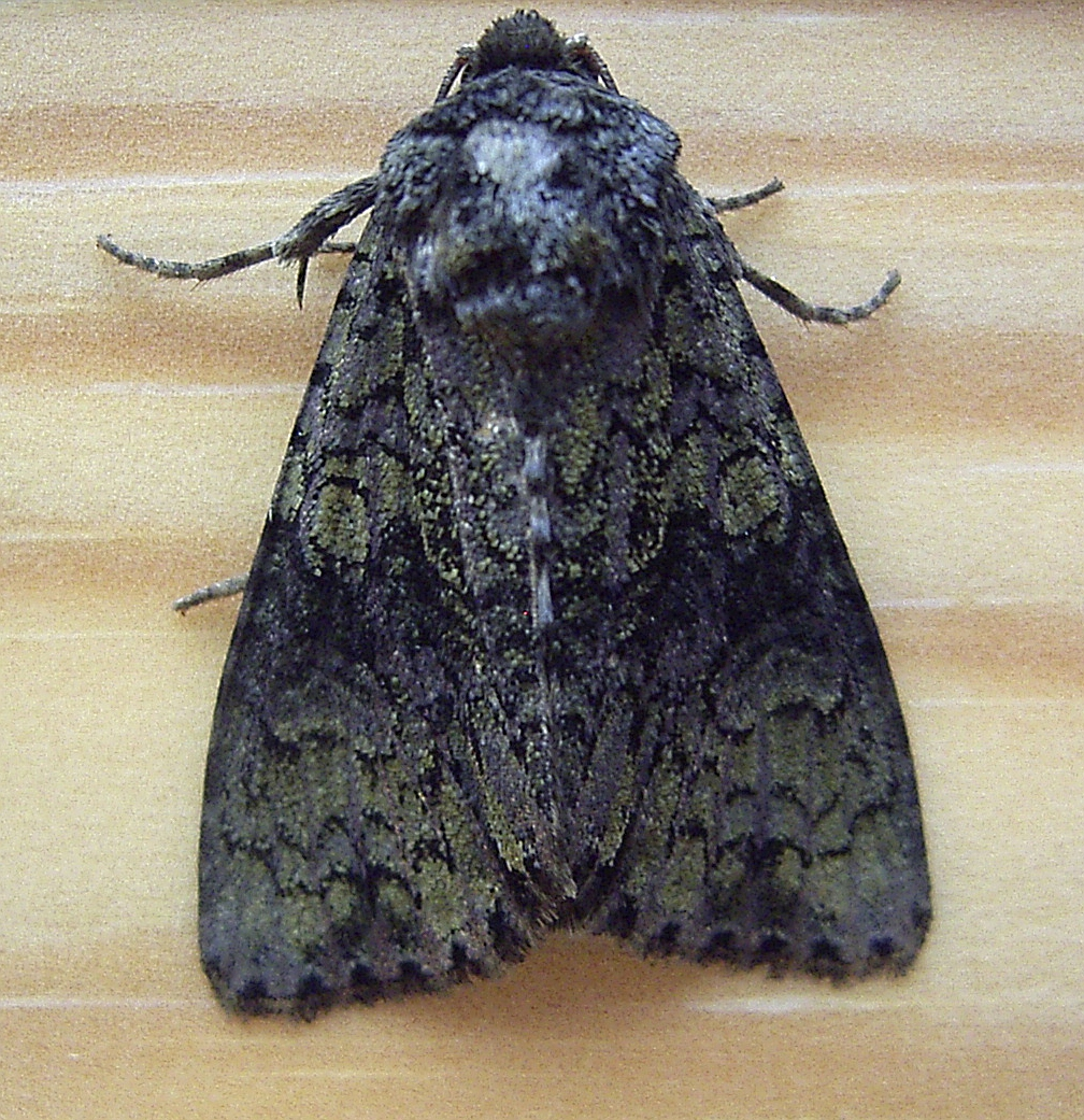 Craniophora ligustri, Ruhrgebiet, Germany